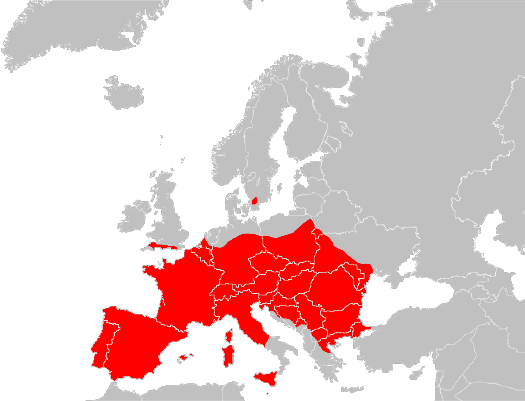 Plecotus austriacus range map.